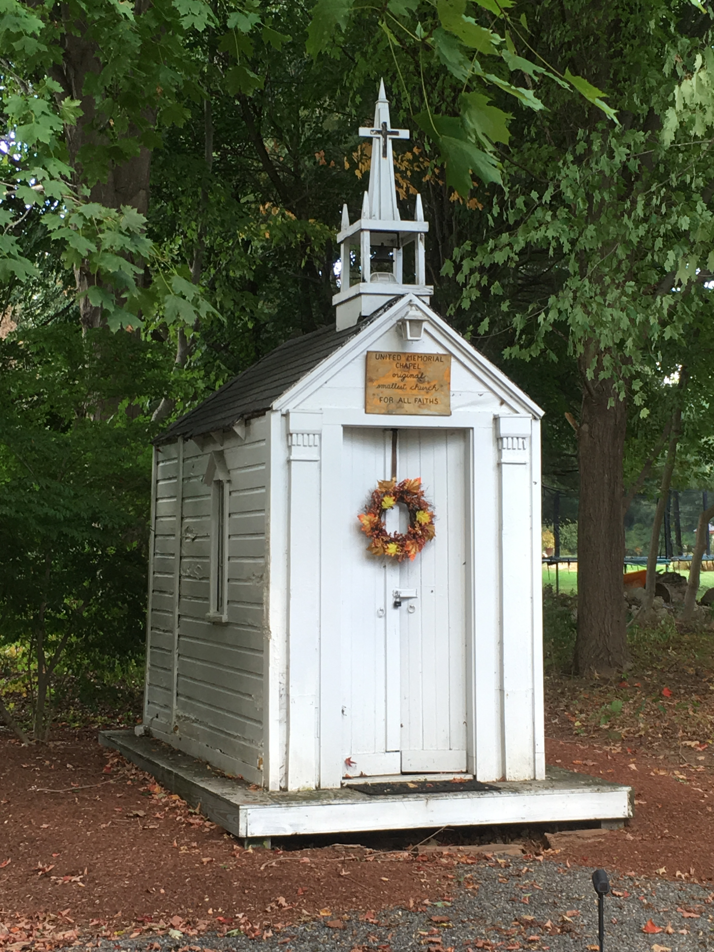 Union Church of All Faiths in Hudson, Massachusetts, USA. Photographed September 24, 2019, from Causeway Street. This is a small chapel originally built by Rev. Louis W. West, a retired minister, in the 1950s. During most of that time it was located in Hudson, MA, although for a few years in the mid-2000s it was located in Nantucket, MA. It is now located on private property on Causeway Street.